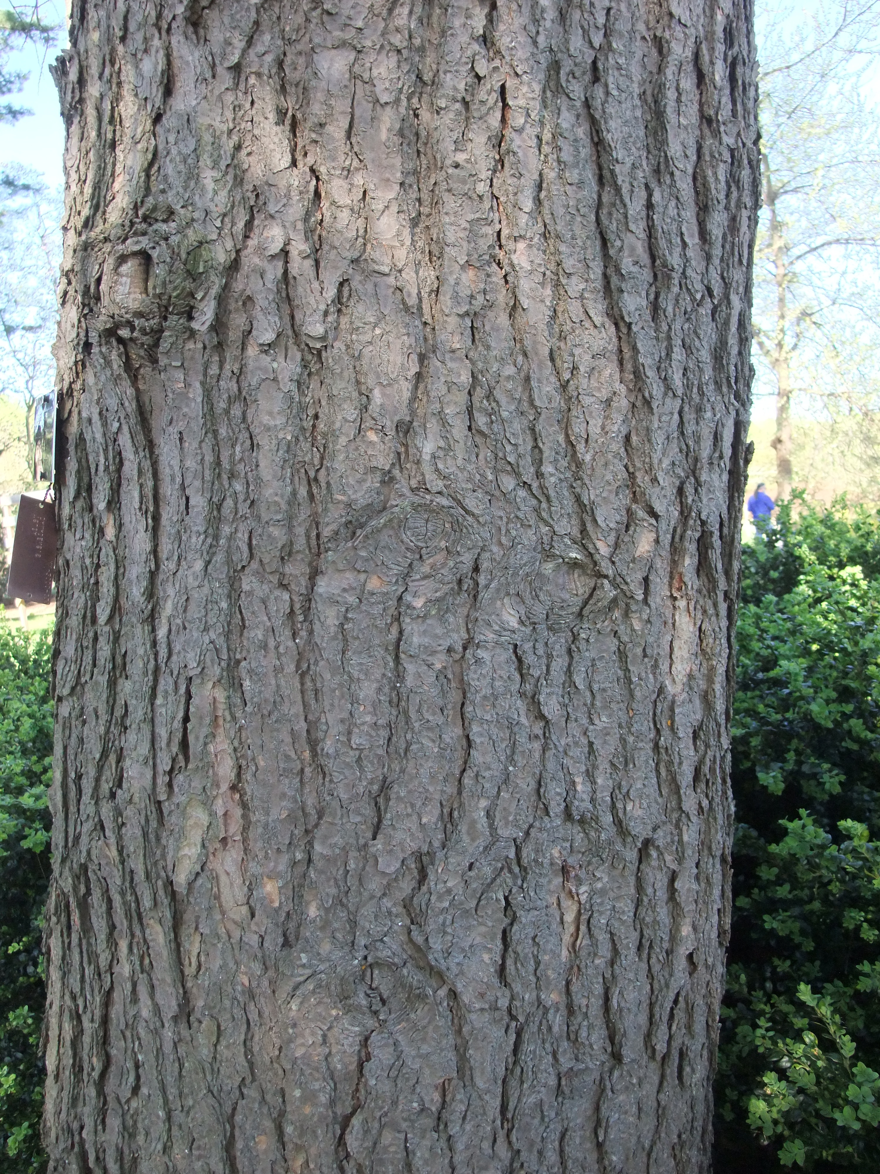 The bark of Tsuga canadensis.